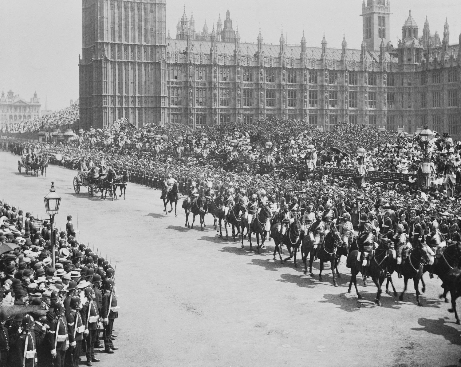 Escort of Indian Cavalry passing the Houses of Parliament